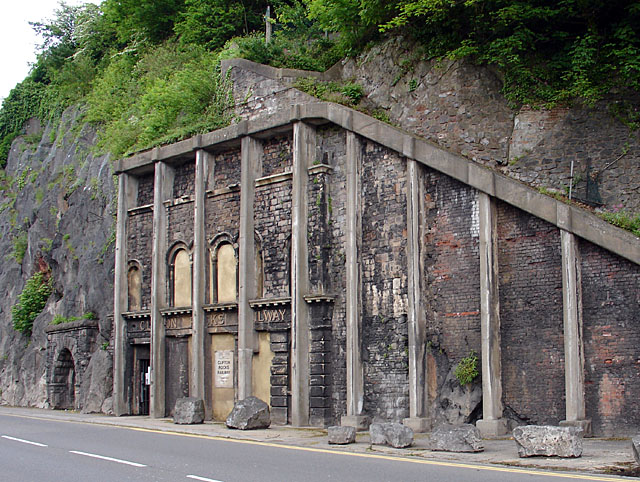 Clifton Rocks Railway. Linda Bailey writes: "Clifton Rocks Railway It is easy to miss this as you pass by on the Portway. The funicular railway was in use for 40 years between 1893 and 1934. Even when it closed it then had a used as a base for the BBC during WWII. The tunnel is 500 feet long, through limestone and is brick lined. You can read more about the history of the Clifton Rocks Railway here "